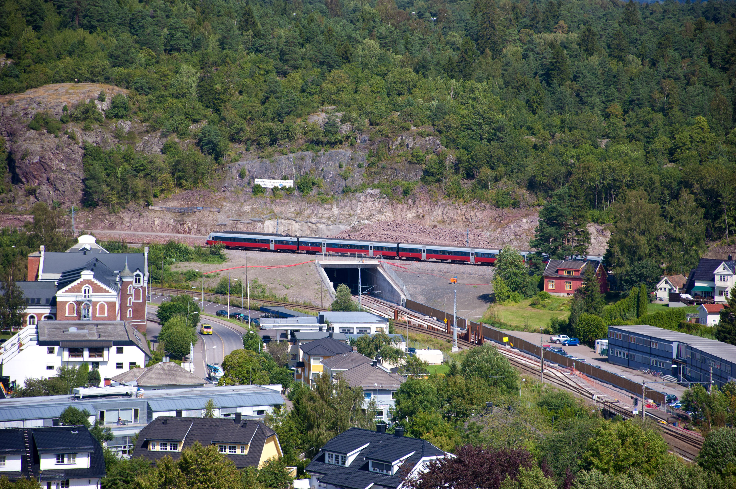 Jarlsbergtunnelen is a railway tunnel under construction in Tønsberg, Vestfold, Norway. It will be part of the Vestfold Line.